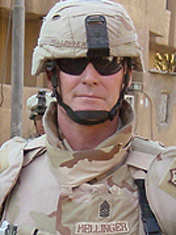 Jeffrey Mellinger in Iraq, 2005